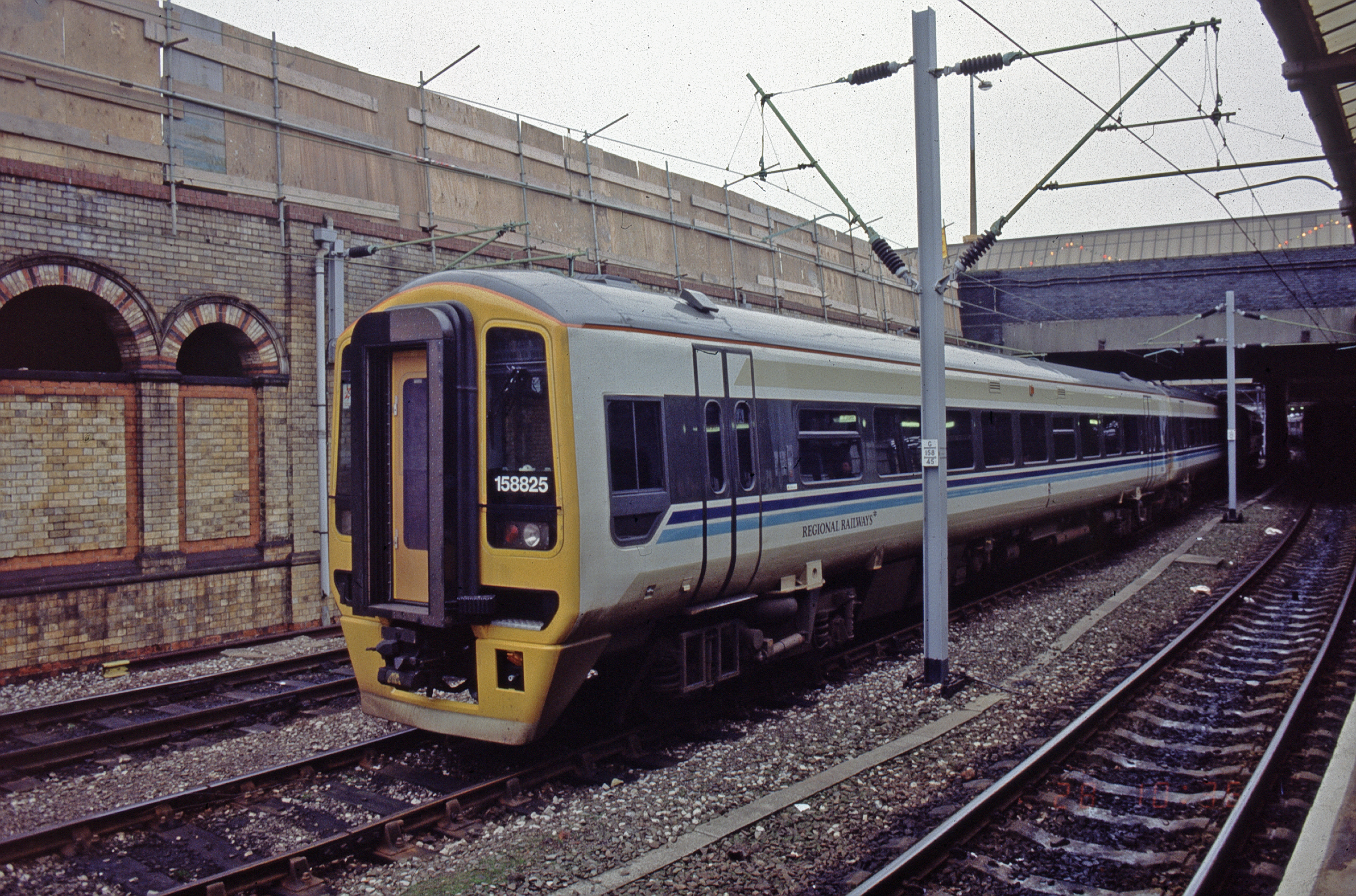 Regional Railways 158825 at Crewe. This unit is now operated by Arriva Trains Wales.